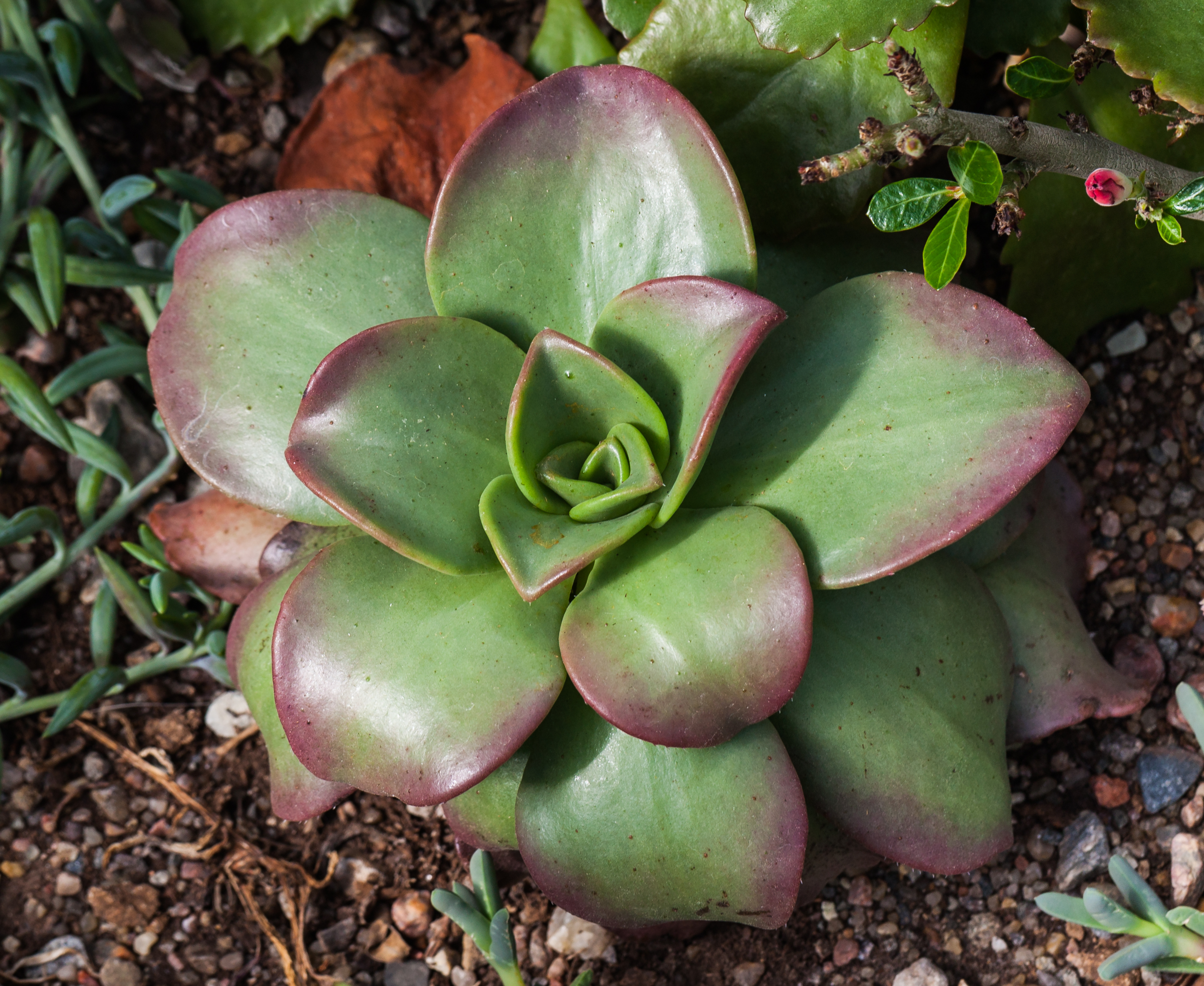 Senecio radicans, Tallinn Botanic Garden, Estonia